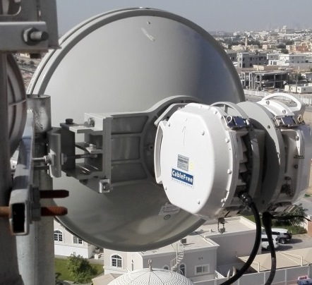 CableFree 2+0 XPIC Microwave Link with orthomode transducer integrated into the antenna. Two separate Microwave ODUs are connected to the OMT ports for H, V polarisations.